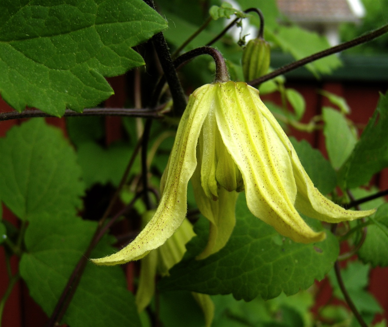 Clematis chiisanensis 'Love Child'. This form was collected from the wild by Tomas Lagerstromn during the Nordic Arboretum Expedition to South Korea in 1976.